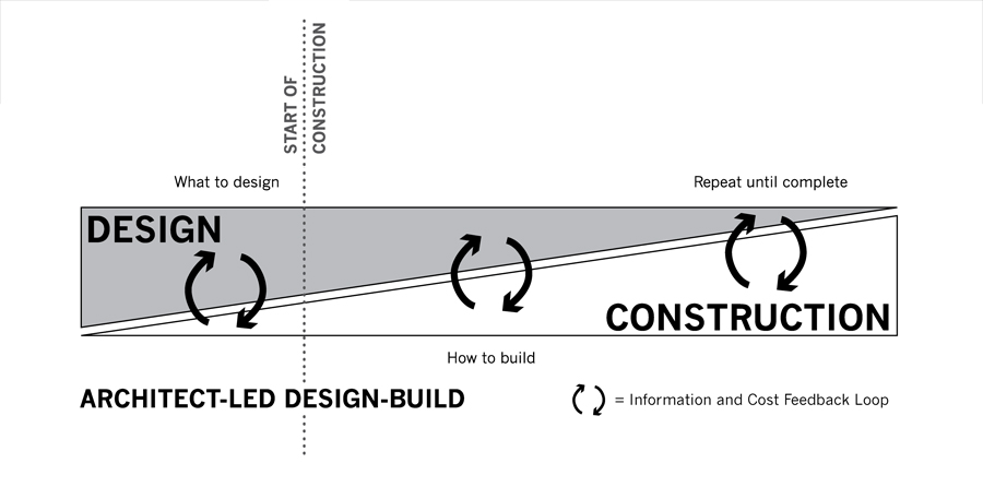 Architect-led Design Build time line